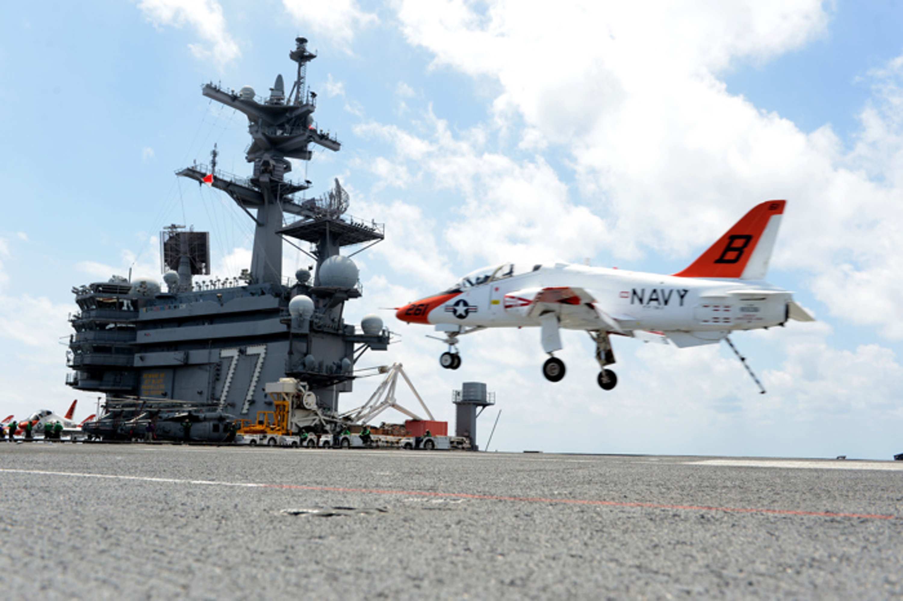 A U.S. Navy T-45C Goshawk aircraft assigned to Training Squadron (VT) 21 prepares to land on the flight deck of the aircraft carrier USS George H.W. Bush (CVN 77) April 24, 2013, in the Atlantic Ocean. The ship was conducting training and carrier qualifications off the U.S. East Coast.